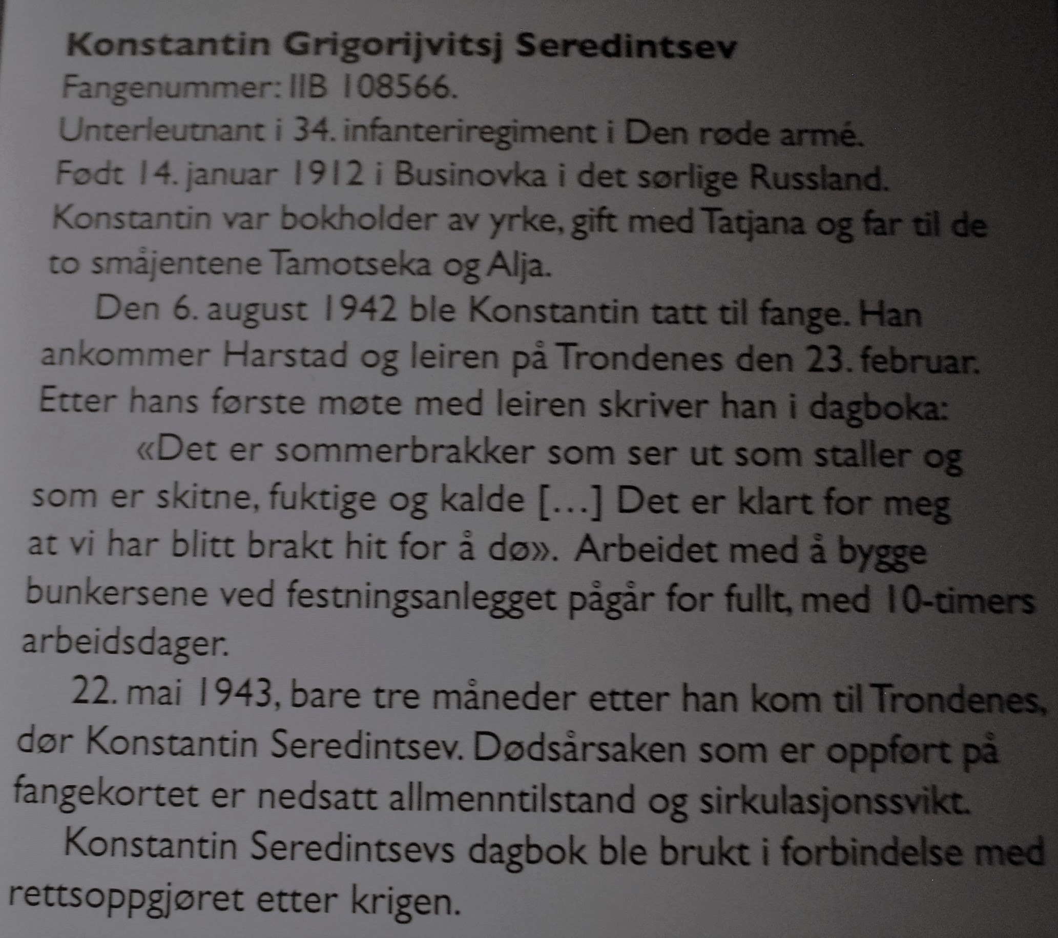 Seen on the Trondenes Historical Centre, Trondenes, Norway